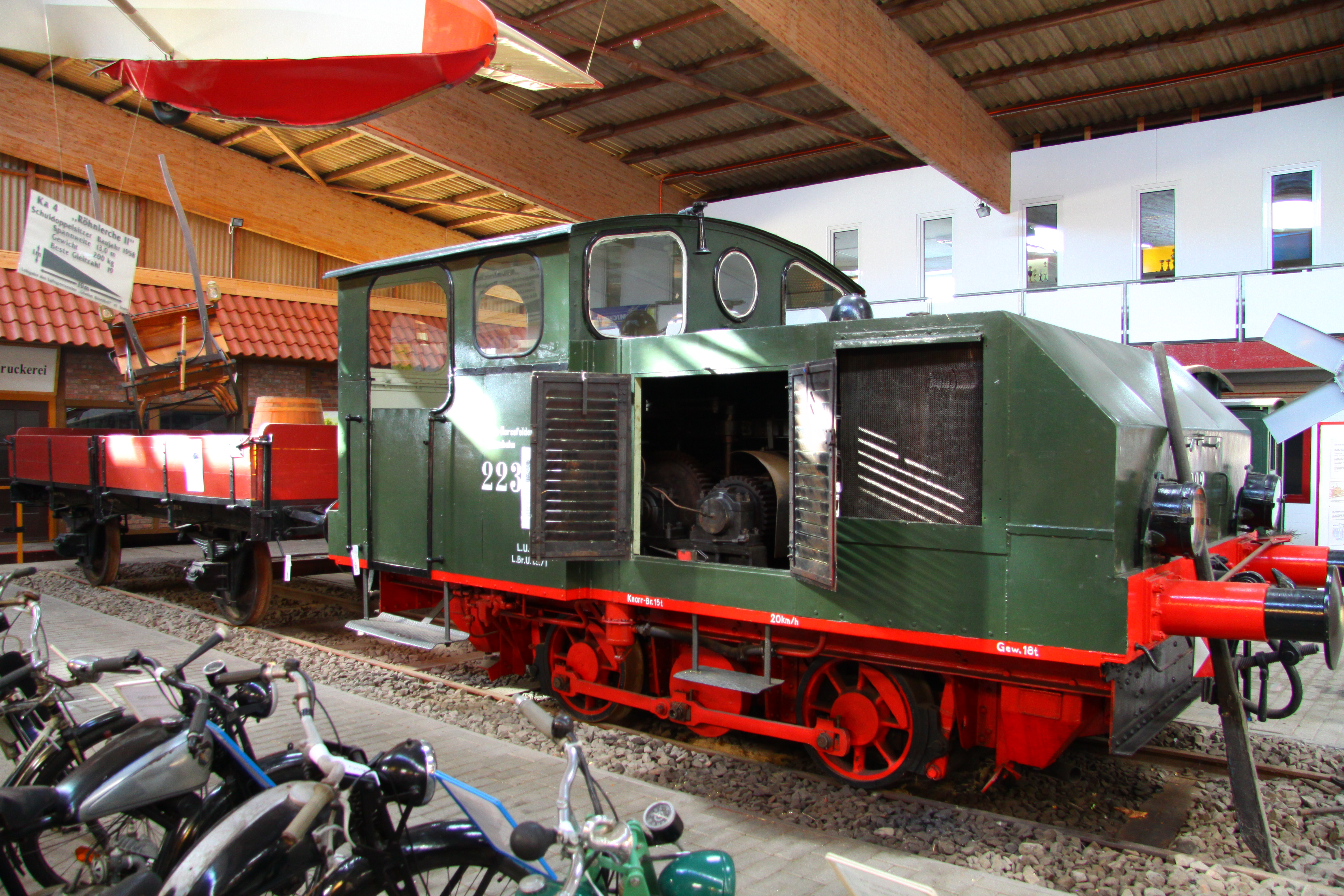 1916 Deutz diesel locomotive at the TuVM Stade